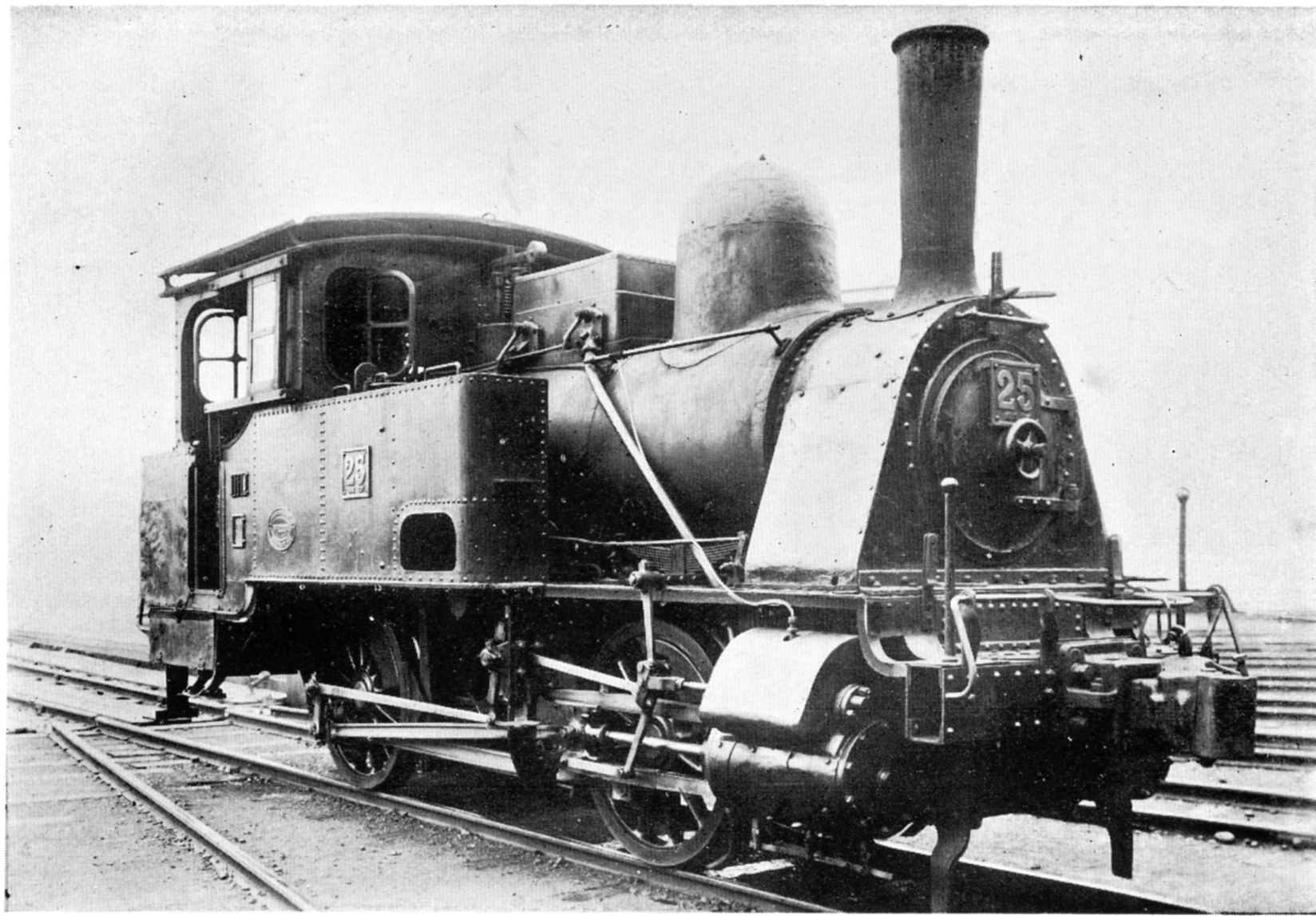 Picture of JGR's 10 type steam locomotive